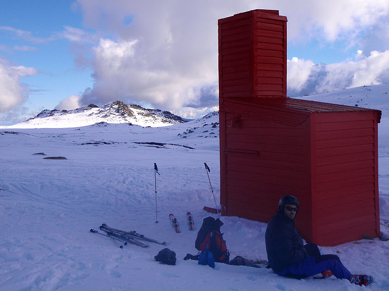 Skier resting at Cootapatamba Hut in September 2010